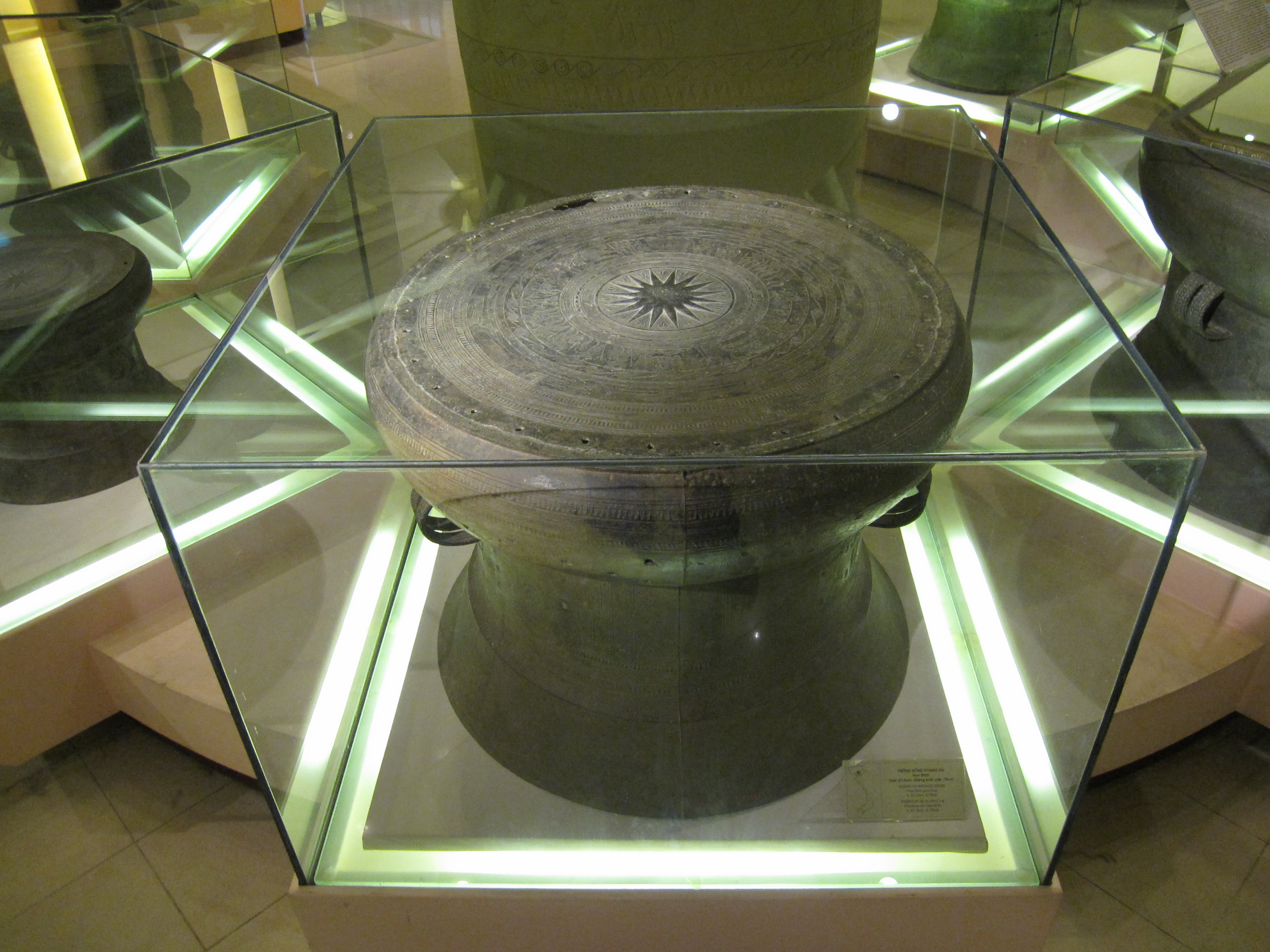 Hoàng Hạ bronze drum. Hòa Bình province. Height: 61.5 cm. Depth: 79 cm. National Museum of Vietnamese History, Hanoi.